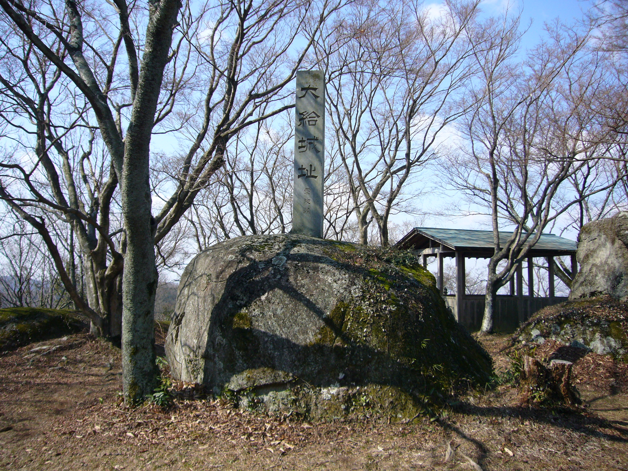 Monument of Ogyuu Castle ruins,Toyota city,Aichi pref.